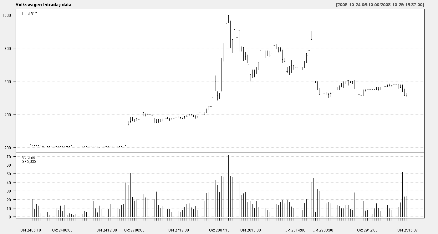 high frequency Volkswagen (VW) intraday stock prices in oct 2008